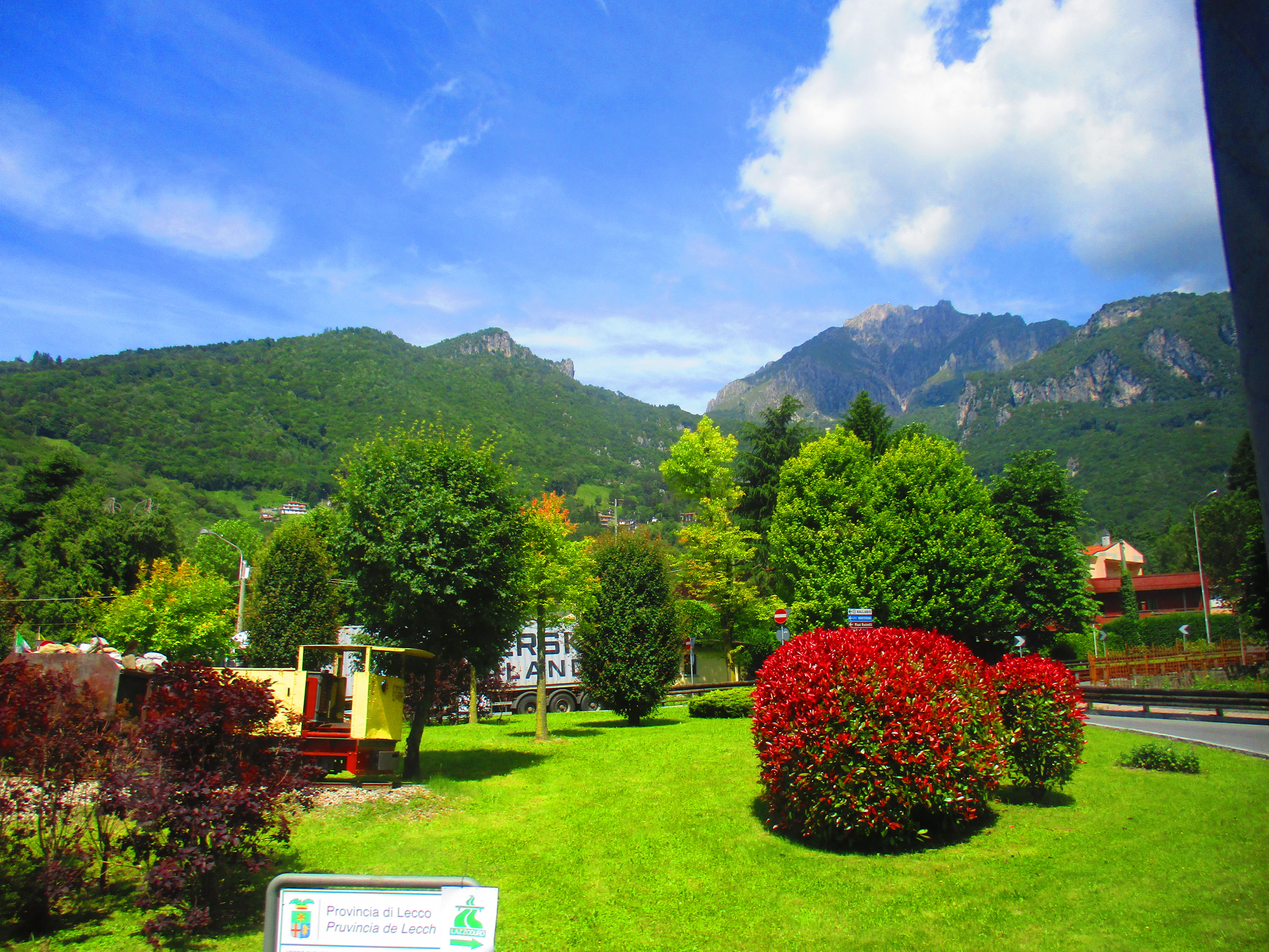 Lombardy